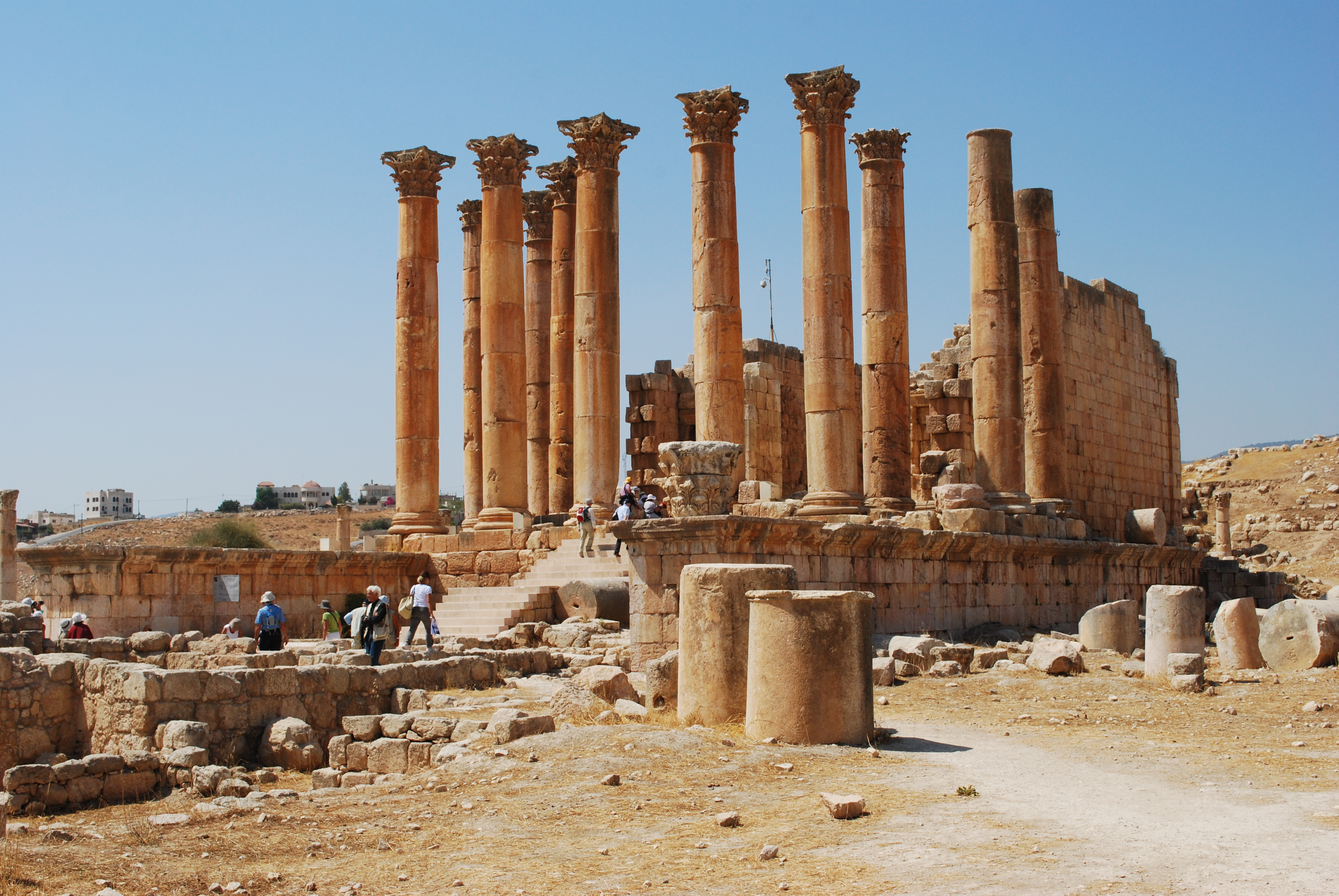 The temple of Artemis in Jerash.